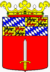 coat of arms of Reimerswaal